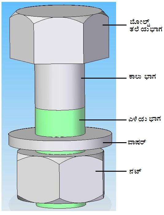 Assembly of Bolt, Nut and Washer.